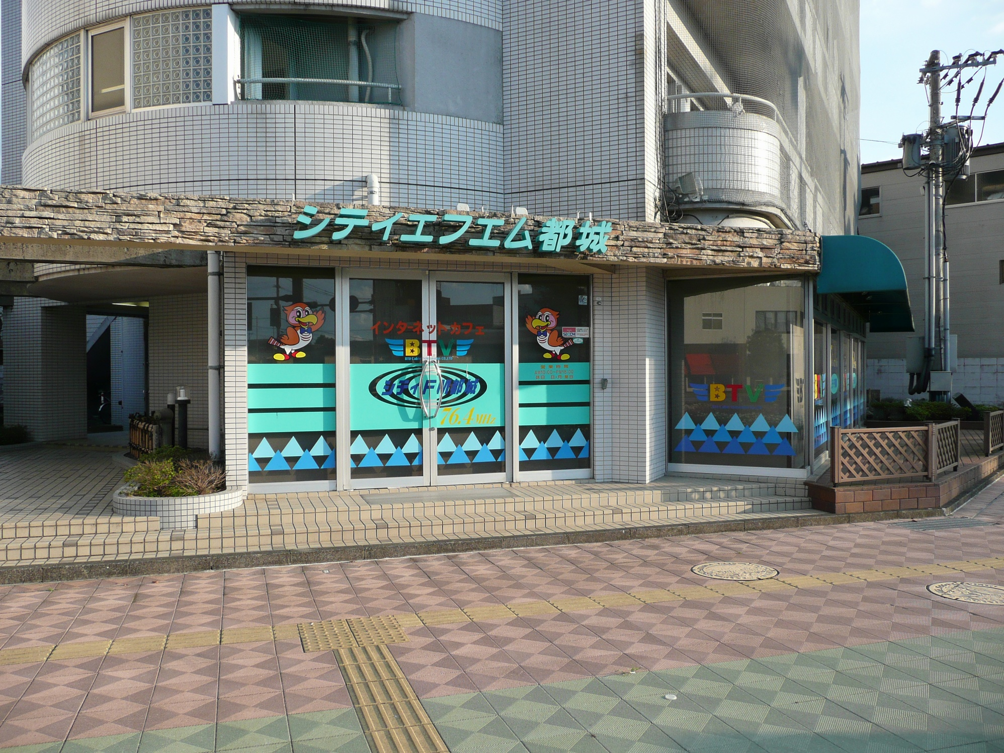 City FM Miyakonojo Studio in 2007 (Miyazaki Prefecture, Japan).